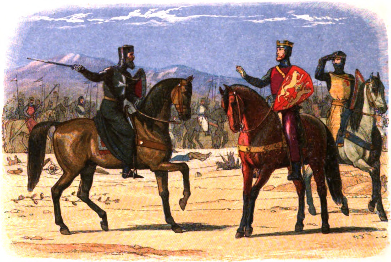 Richard I confers with Godfrey de Duisson, the Master of St John.